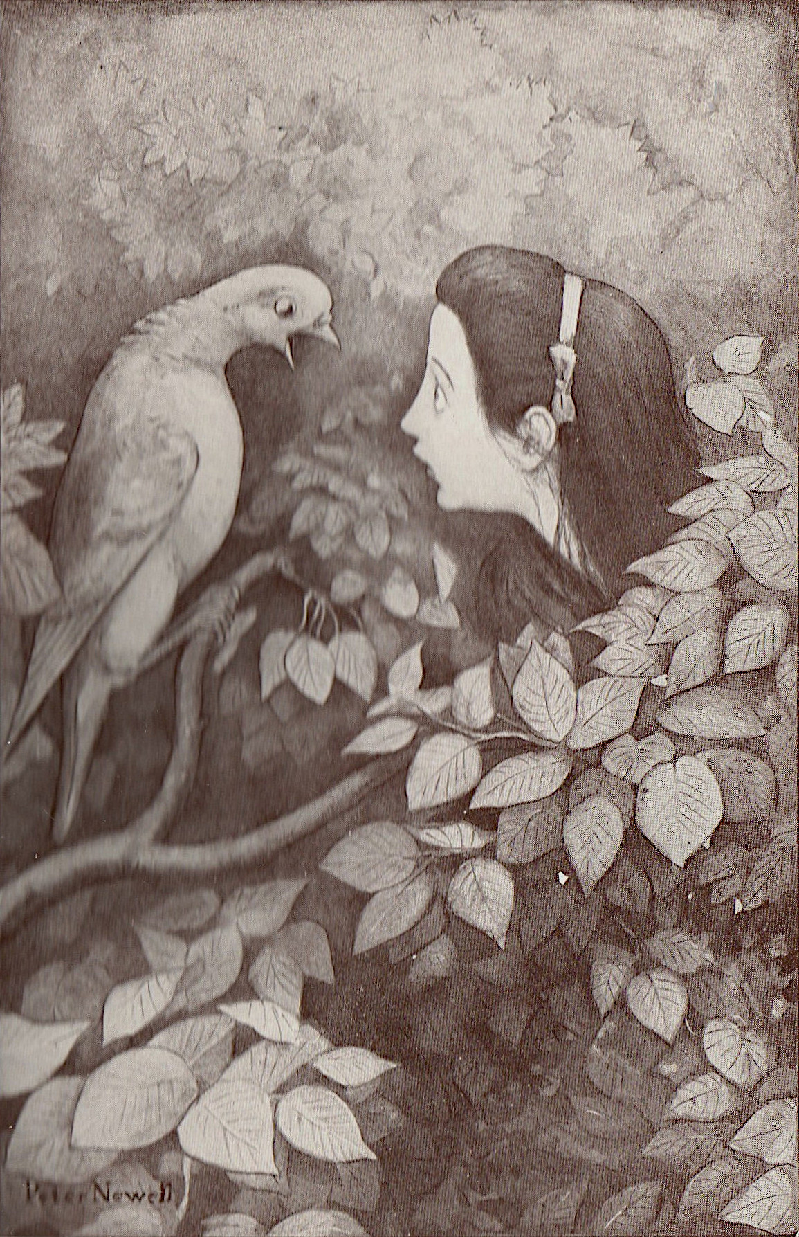 Alice by Peter Newell Other information relevant to article